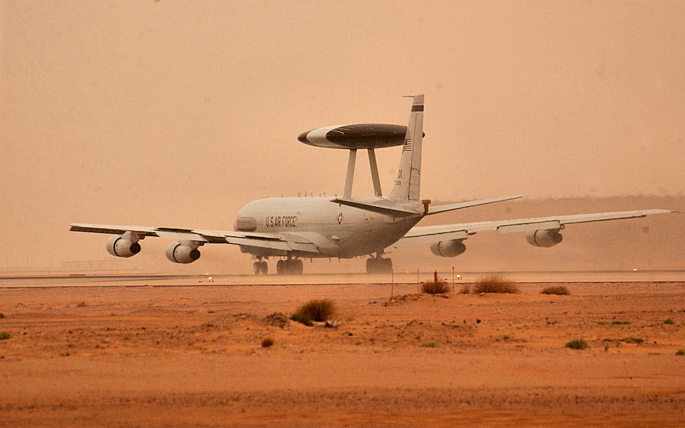 An E-3 AWACS aircraft deployed to the 363rd Air Expeditionary Wing takes off for a mission during a sand storm March 25. Aircraft move around the clock to support Operation Iraqi Freedom at forward deployed locations in Southwest Asia. Operation Iraqi Freedom is the multi-national coalition effort to liberate the Iraqi people, eliminate Iraq's weapons of mass destruction and the regime of Saddam Hussein.